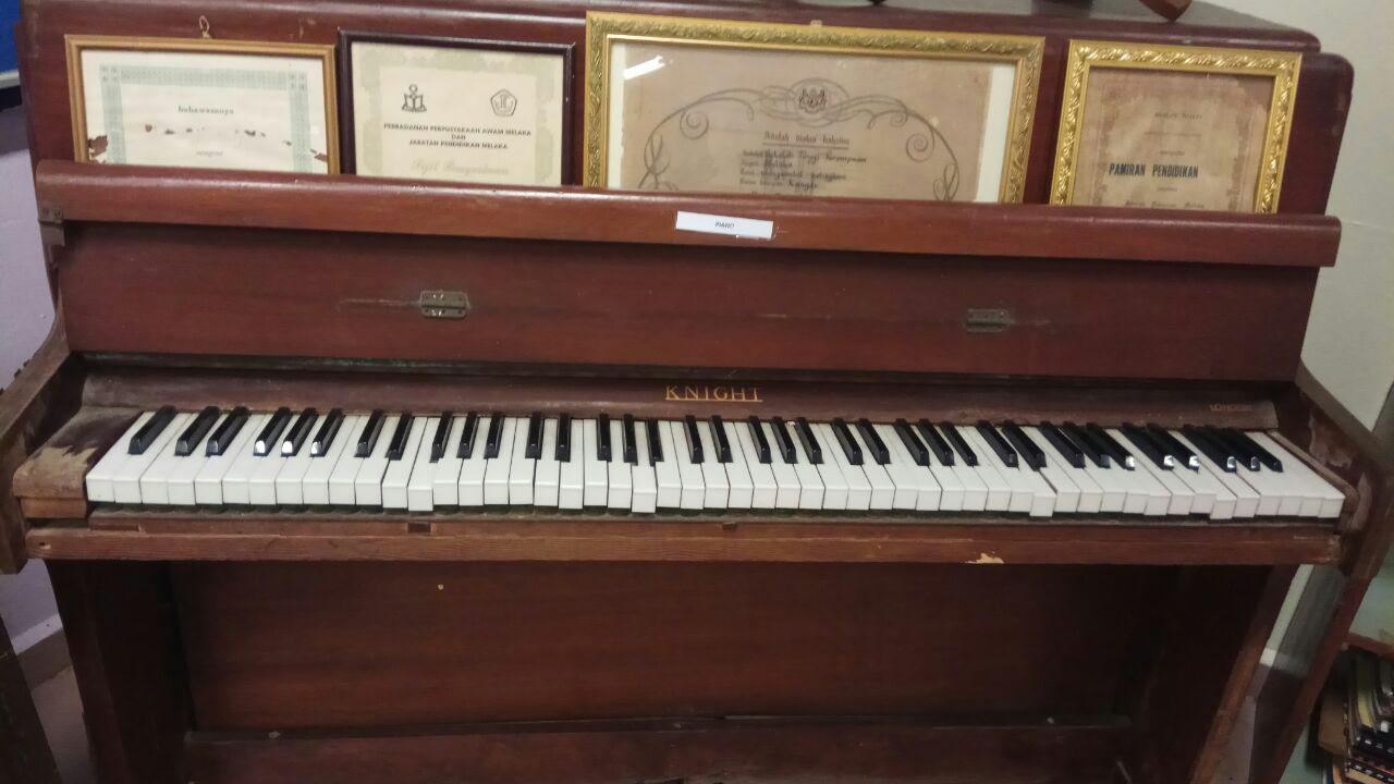 Piano